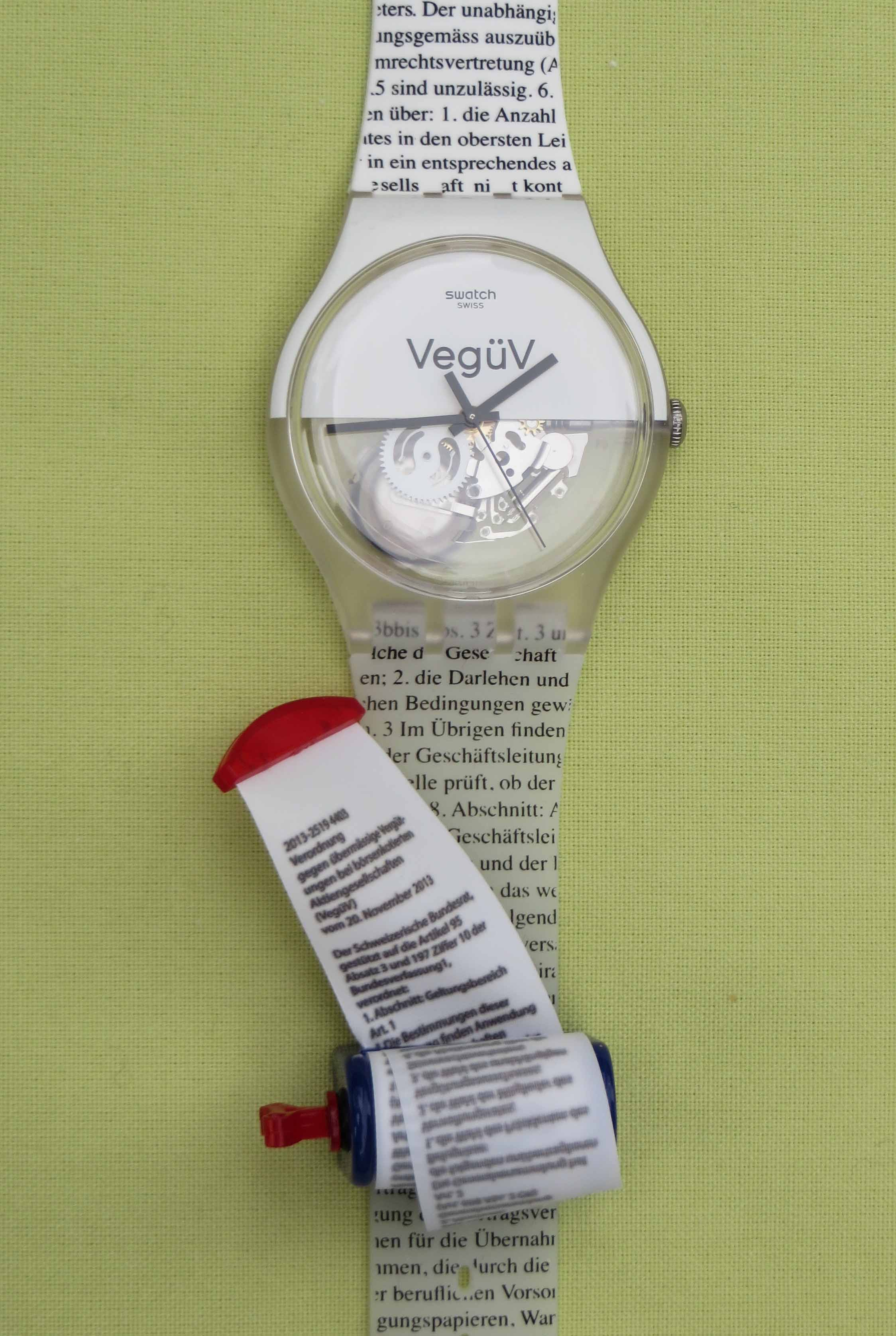 Special design for the AGM of the Swatch Group, May 2015, distributed to the shareholders. Vegüv is a new legislation for Swiss companies.